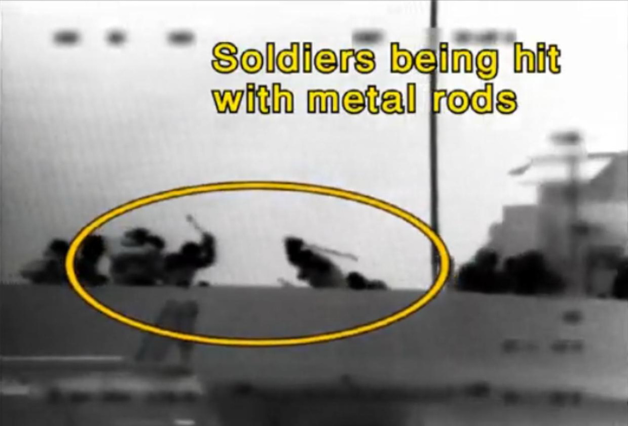 IDF soldiers who boarded the Mavi Marmara ship in order to enforce the maritime closure on Gaza, were met with a violent mob armed with clubs, slingshots, saws, knives, and used live fire against the IDF soldiers. Pictured here: A still taken from video footage showing the flotilla passengers hitting soldiers repeatedly with metal rods. For the video footage click here